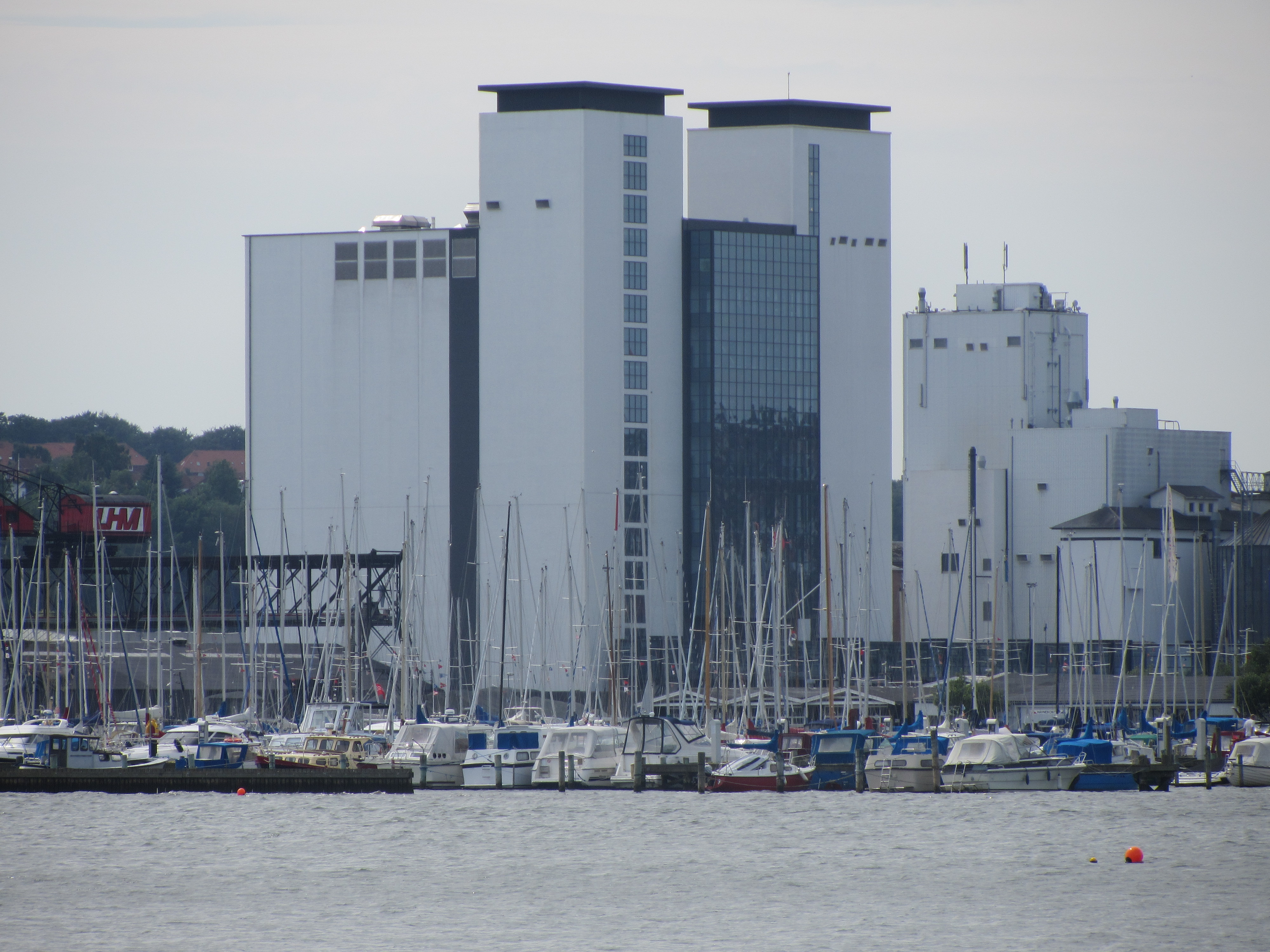 Mill at Vejle Harbour, Denmark